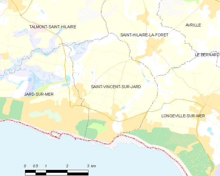 Map of French municipality Saint-Vincent-sur-Jard